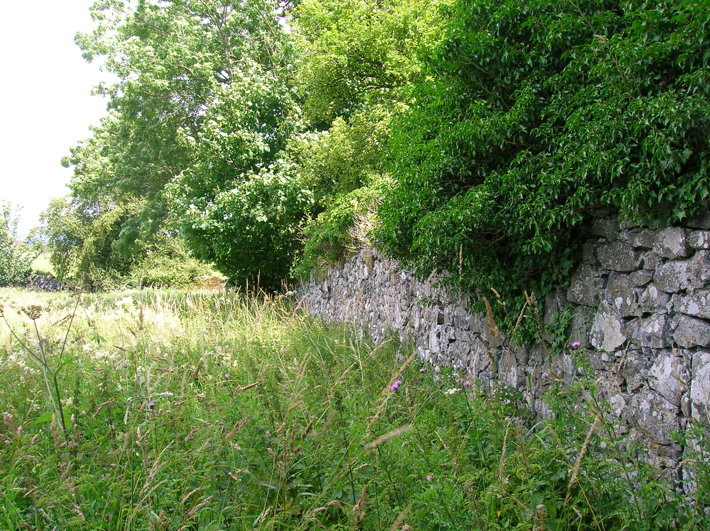 Auchans Castle walled garden, East Ayrshire, Scotland